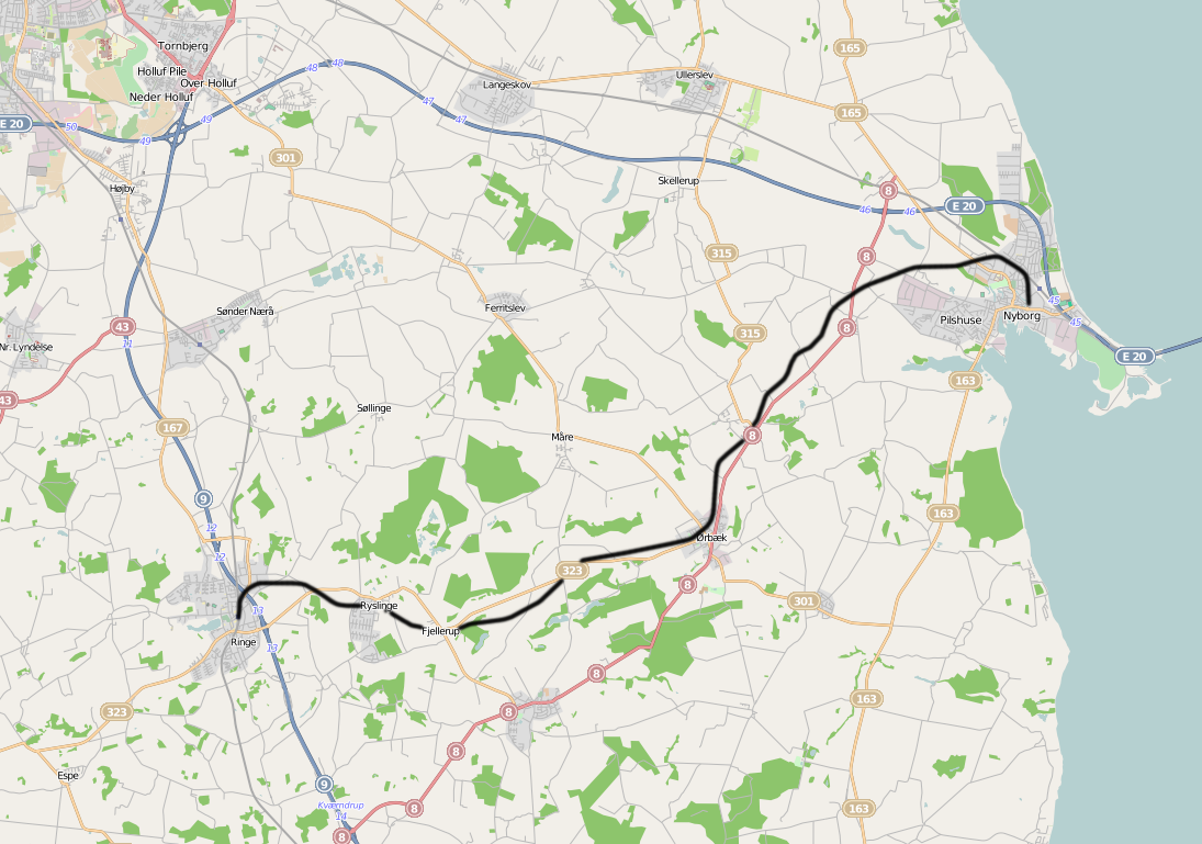 Railway line Ringe - Nyborg